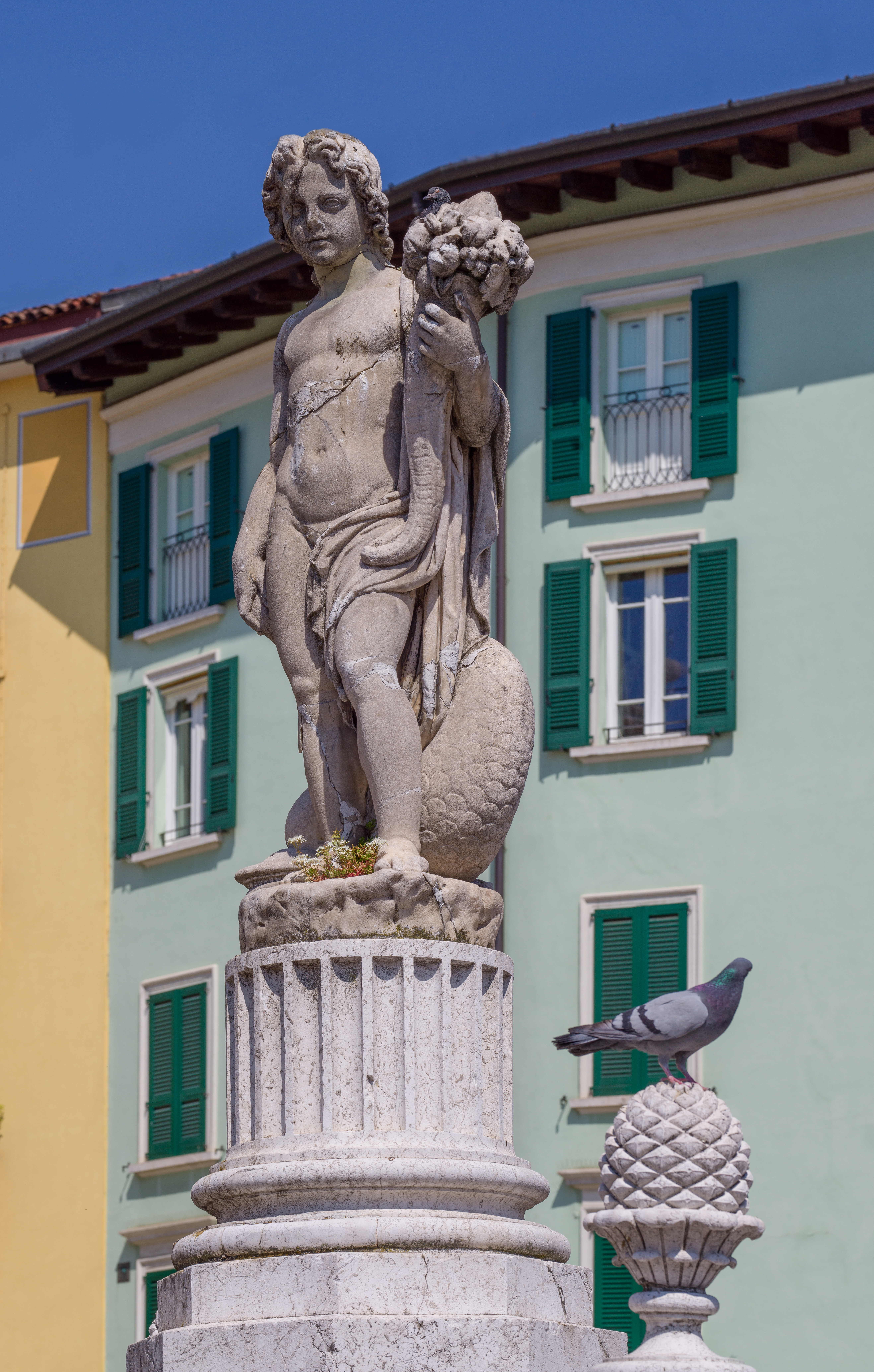 Statue of standing boy with cornucopia by Giovanni Antonio Labus on the fountain of Piazza del Mercato square in Brescia